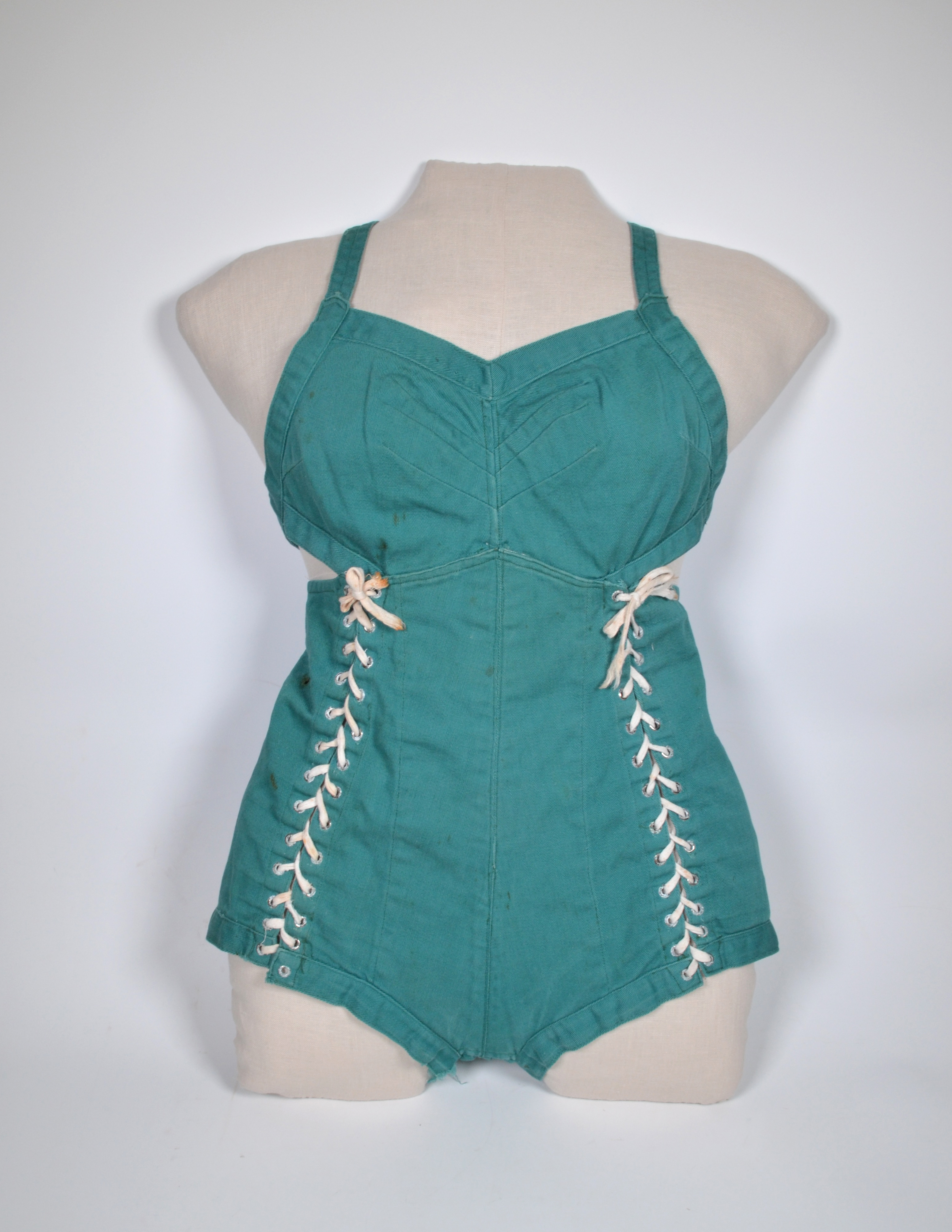 This photo shows an Early Lace-Up Rose Marie Reid "Holiday Togs" swimsuit from 1937 owned by the Harold B. Lee Library of Brigham Young University displayed on a dressform.